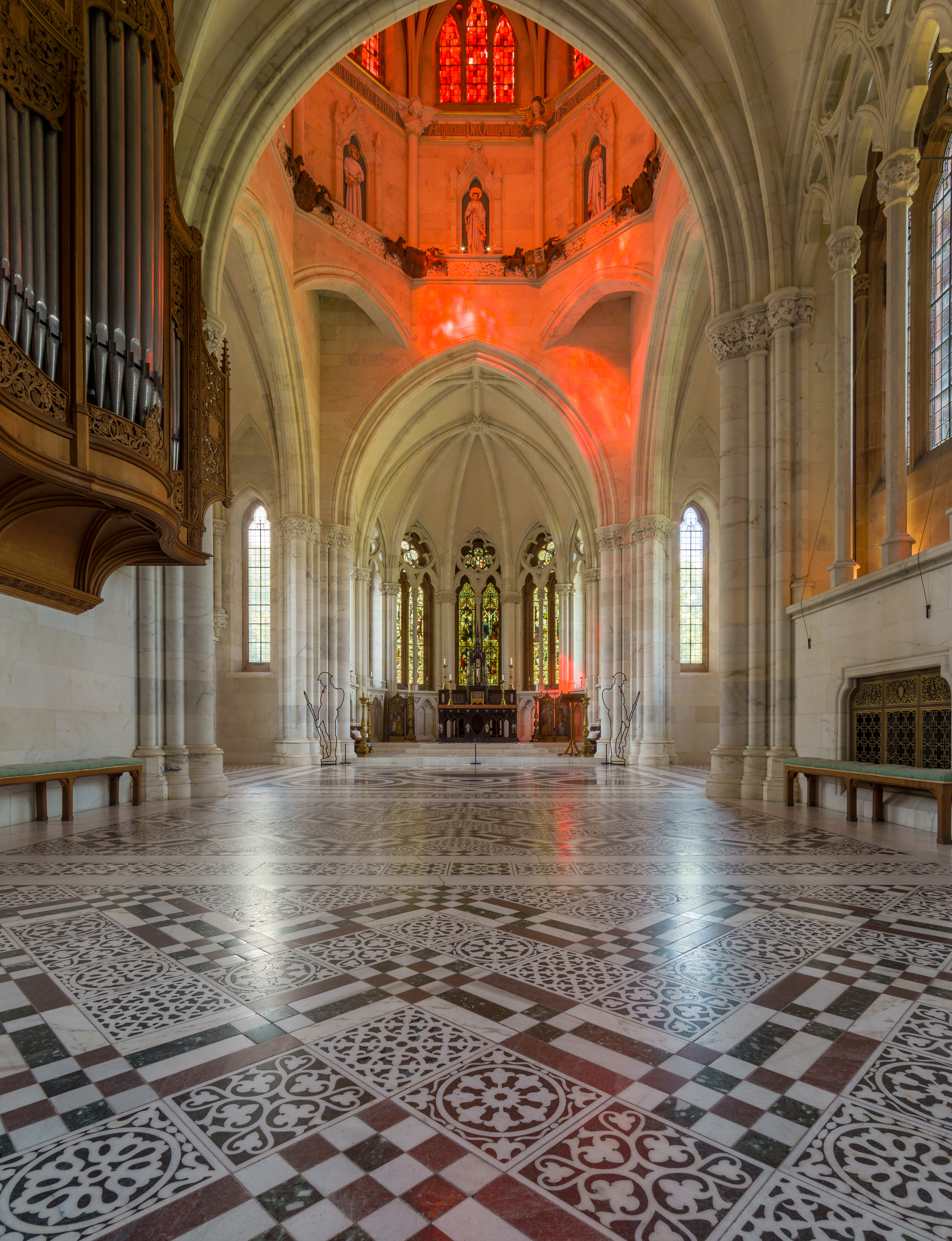 Mount Stuart House chapel. The red light comes from the red stained glass in the lantern. Wikidata has entry Q1545344 with data related to this item.